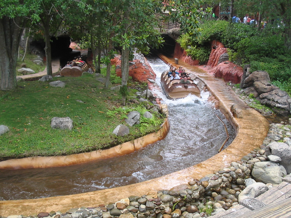 Water attraction Magic Kingdom, Disney